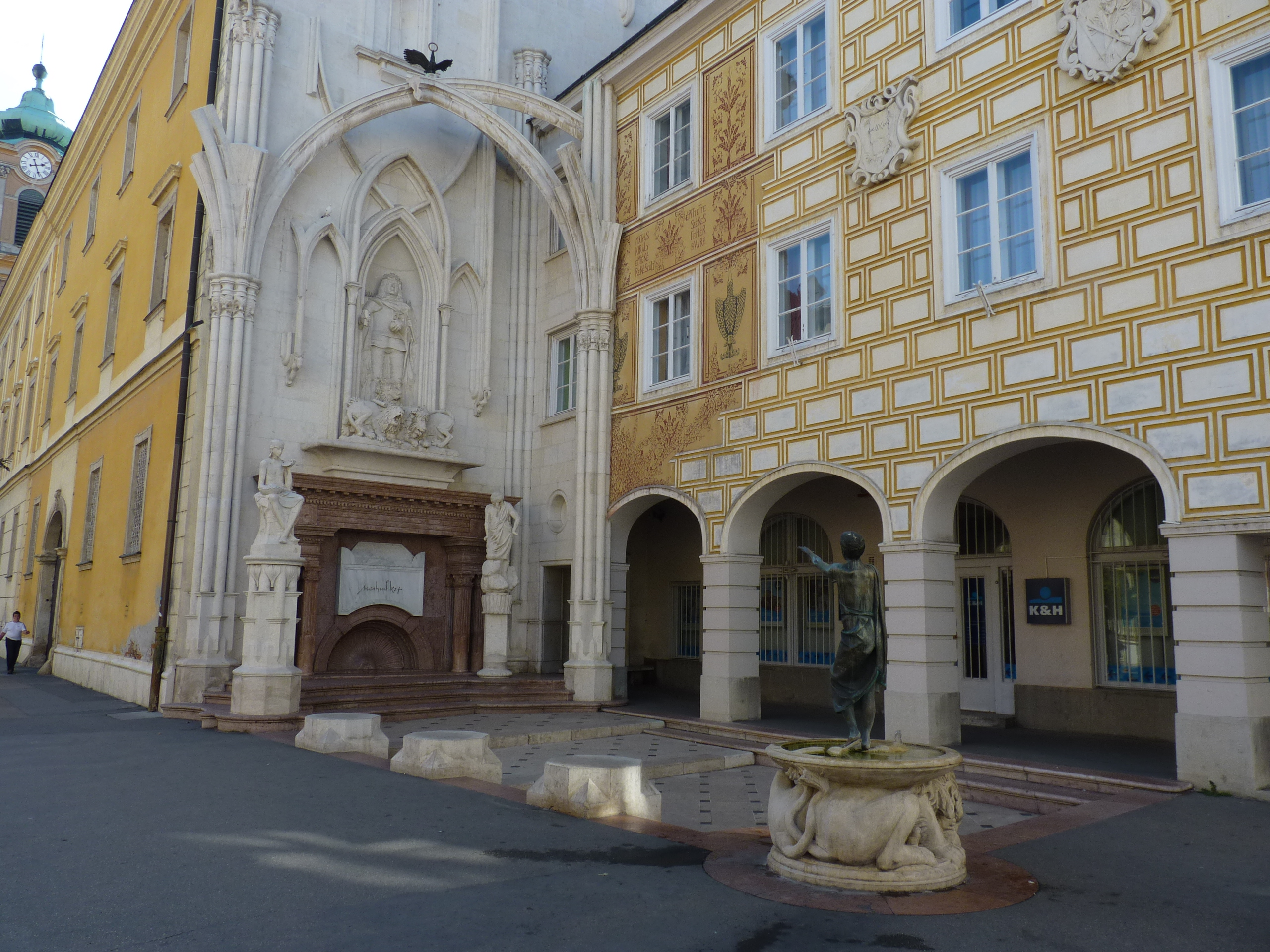 King Matthias Memorial, Székesfehérvár